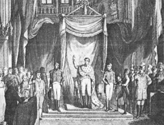 Inauguration of William I of the Netherlands, 30 March 1814.